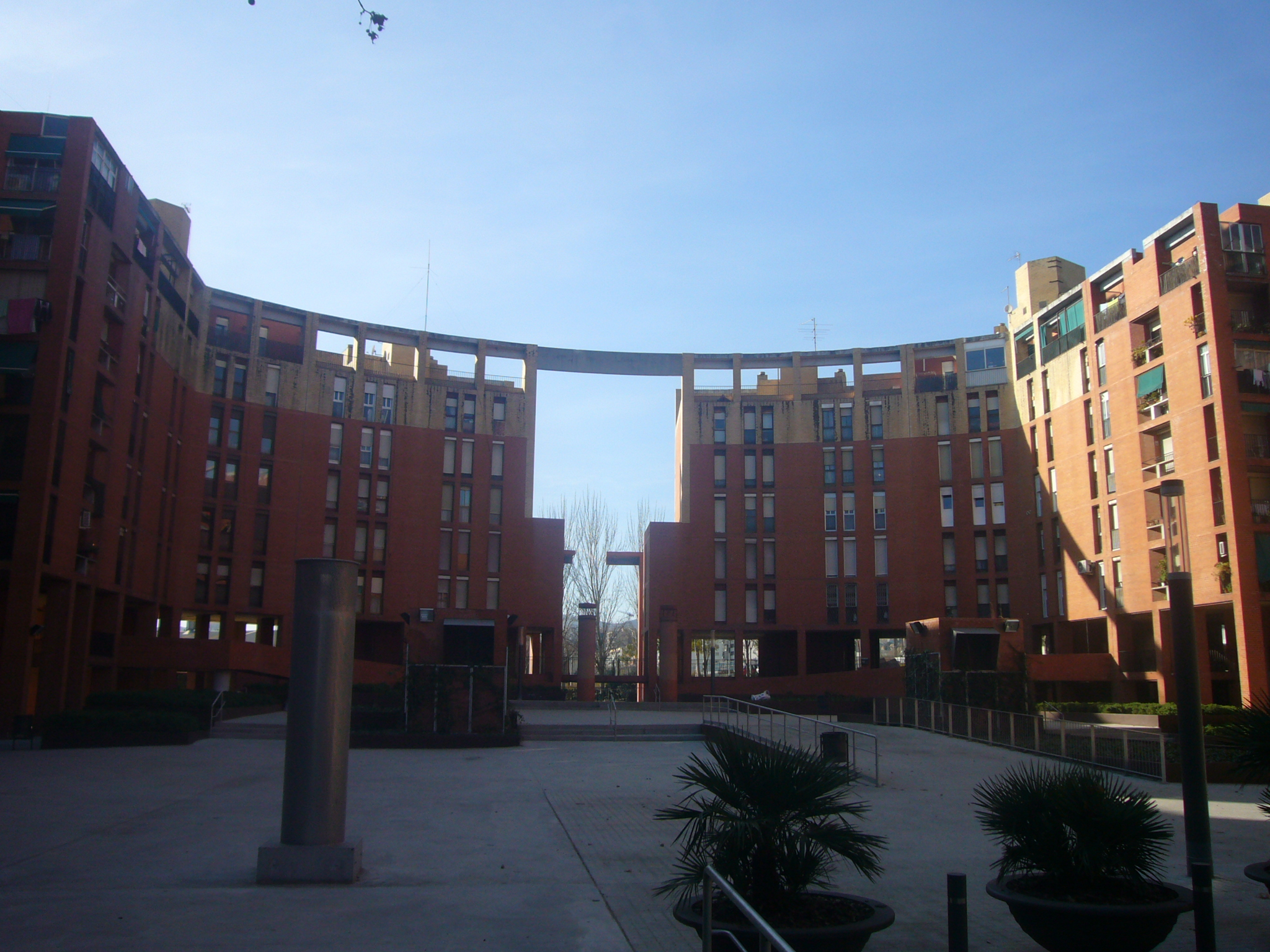 Plaça del Baró de Viver